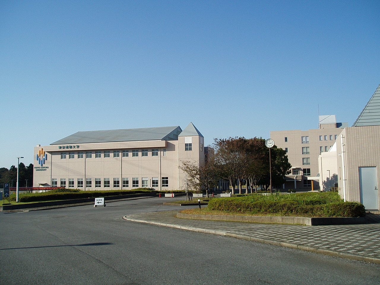 Yachiyo Campus, Tokyo Seitoku University, located in Yachiyo, Chiba, Japan.